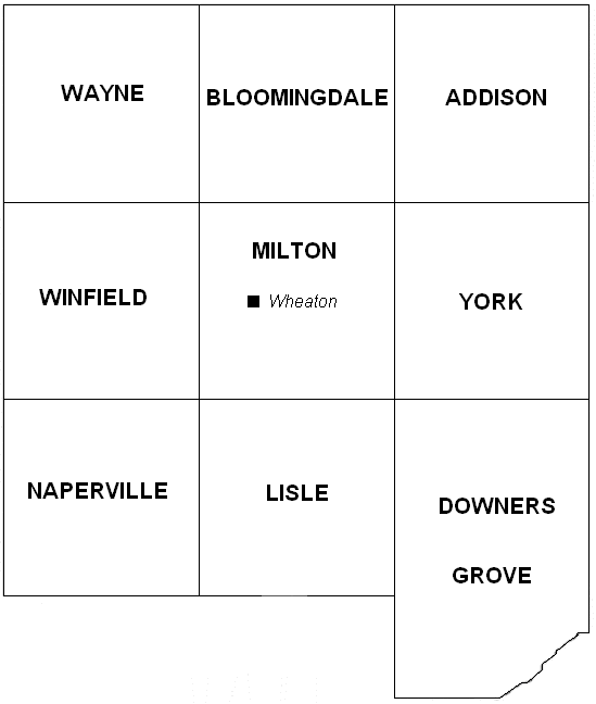 Map of DuPage County with townships and county seat